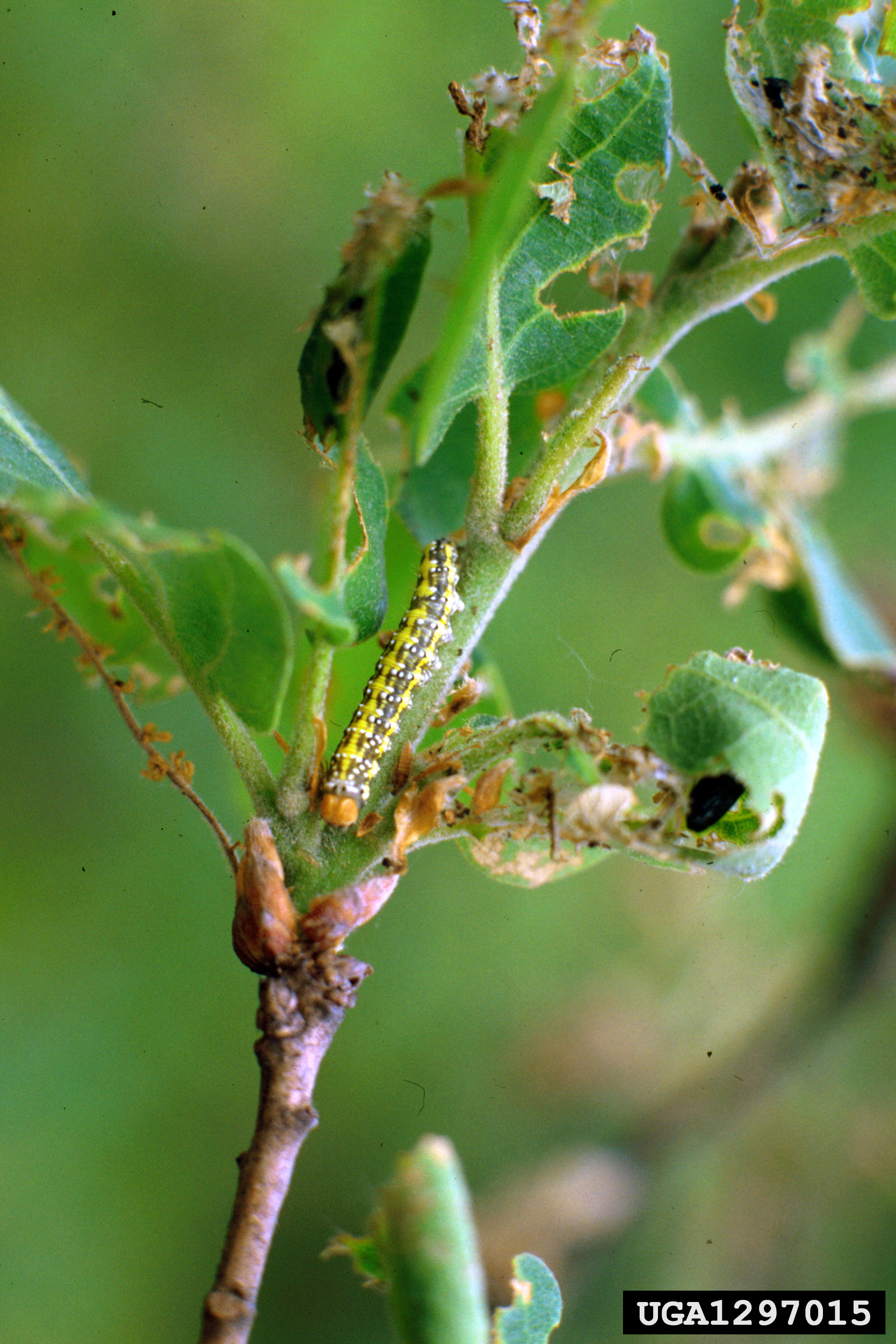 Polyploca ridens